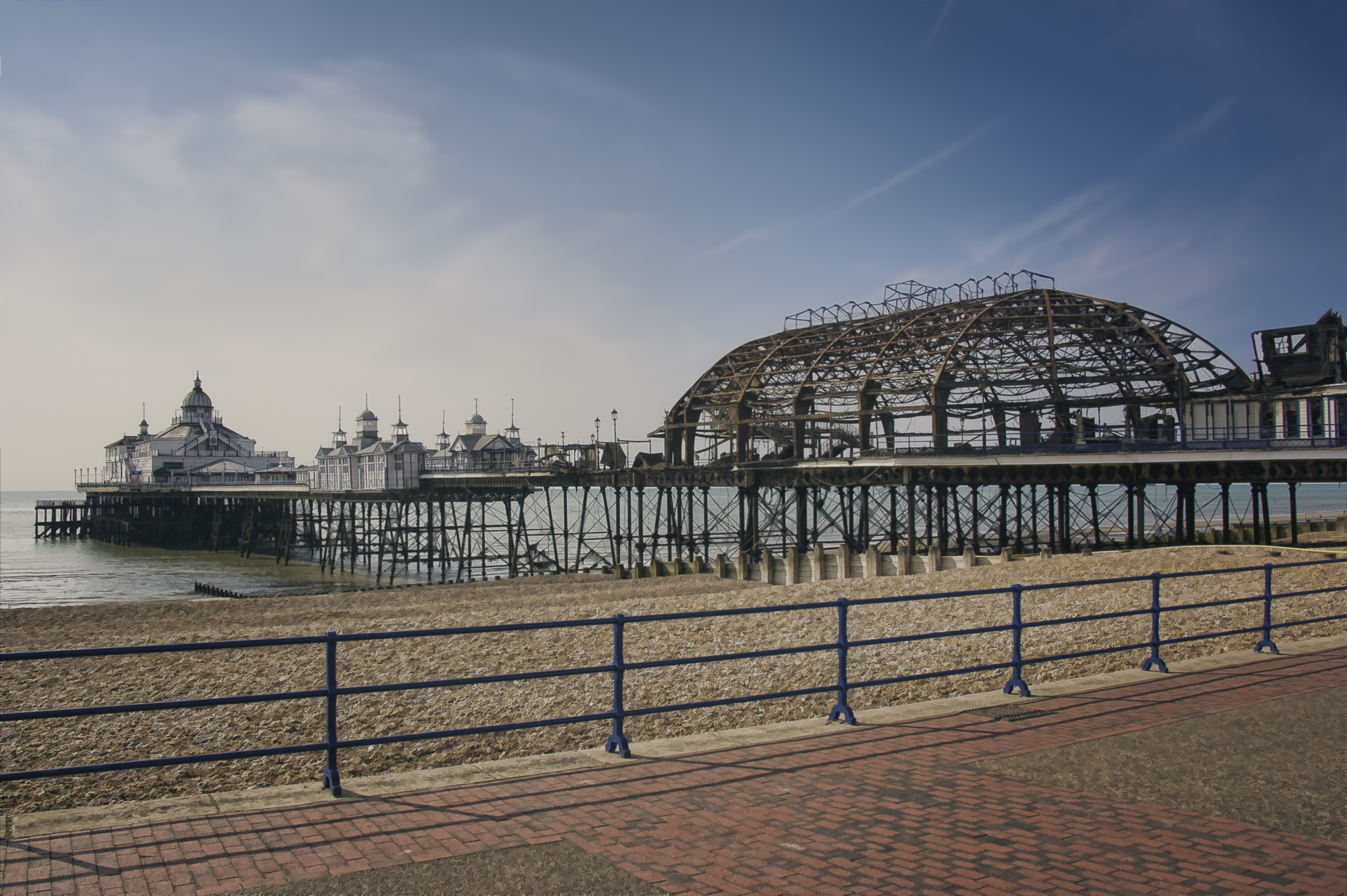 The morning after. The amusement arcade at eastbourne pier is but a shell